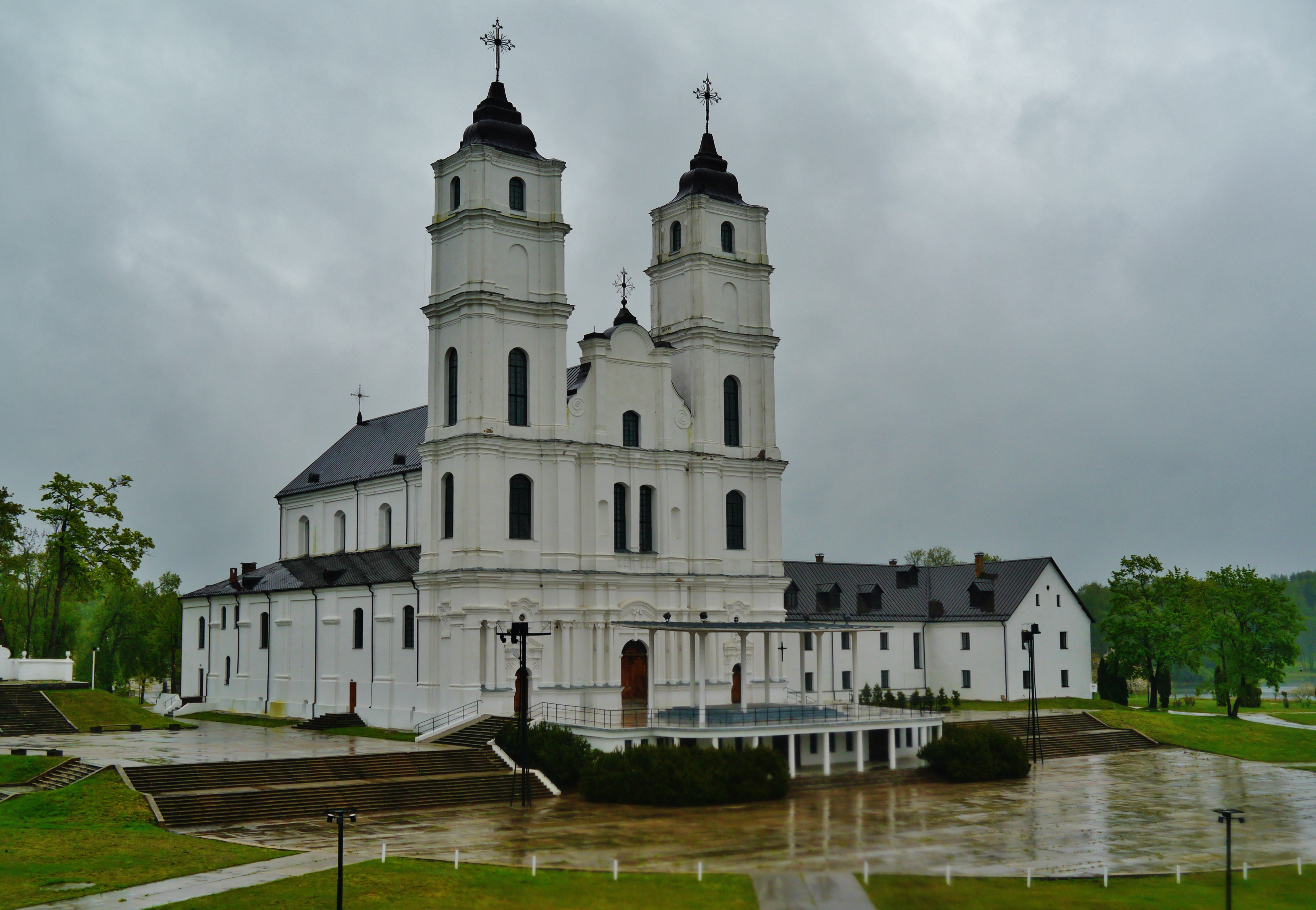 Basilica, Aglona, Latvia